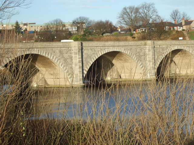 The Bridge of Don From by the Esplanade.